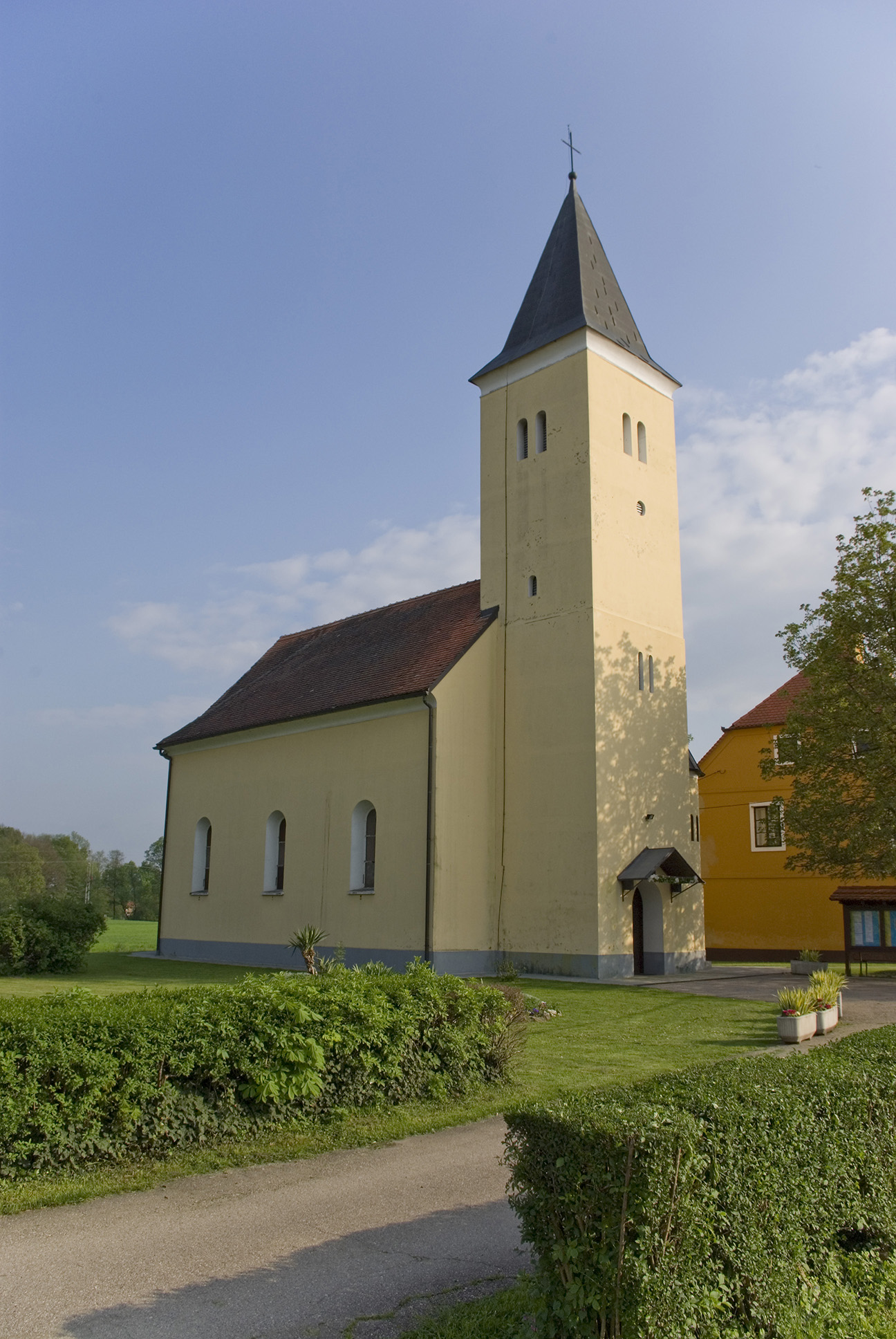 Church in Novo Cice, Croatia